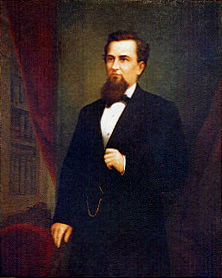 Fourth California Governor J. Neely Johnson